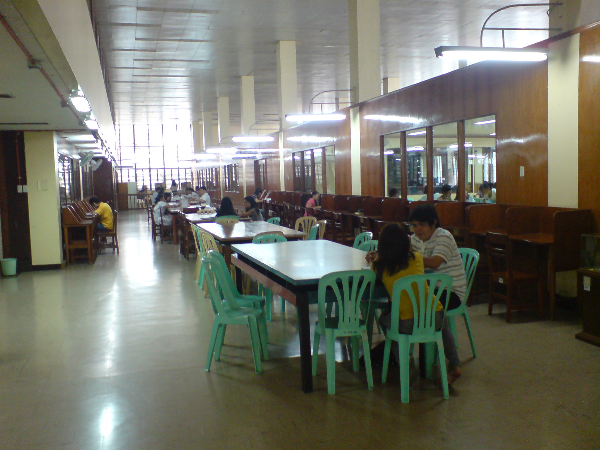 The Filipiniana Reading Room at the National Library of the Philippines. Tagalog: Ang Silid-Aklatan ng Sangay ng Filipiniana sa Pambansang Aklatan ng Pilipinas.